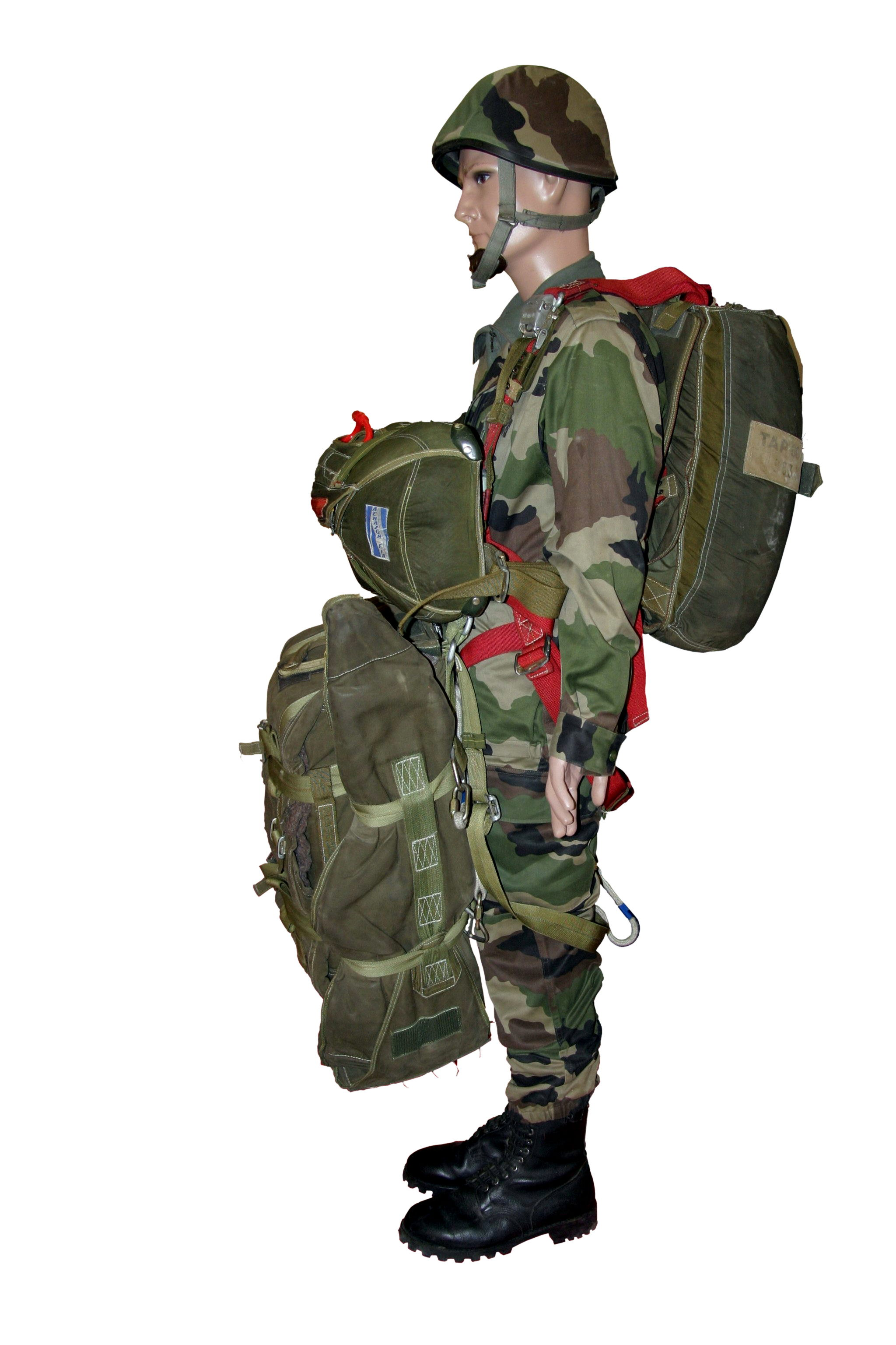 Infanterie de Marine paratrooper uniform